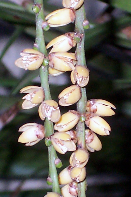 Walking Stick Flowers - Nightcap National Park